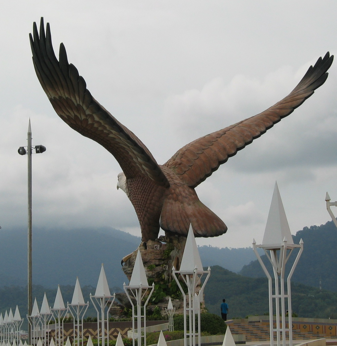 Eagle Statue, Eagle Square, Kuah, Langkawi, Malaysia Taken by Dave Sumpner